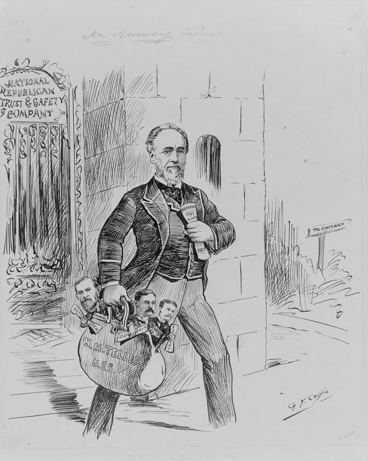 A cartoon drawing by George Yost Coffin satirizing Henry Moore Teller (1830-1914).